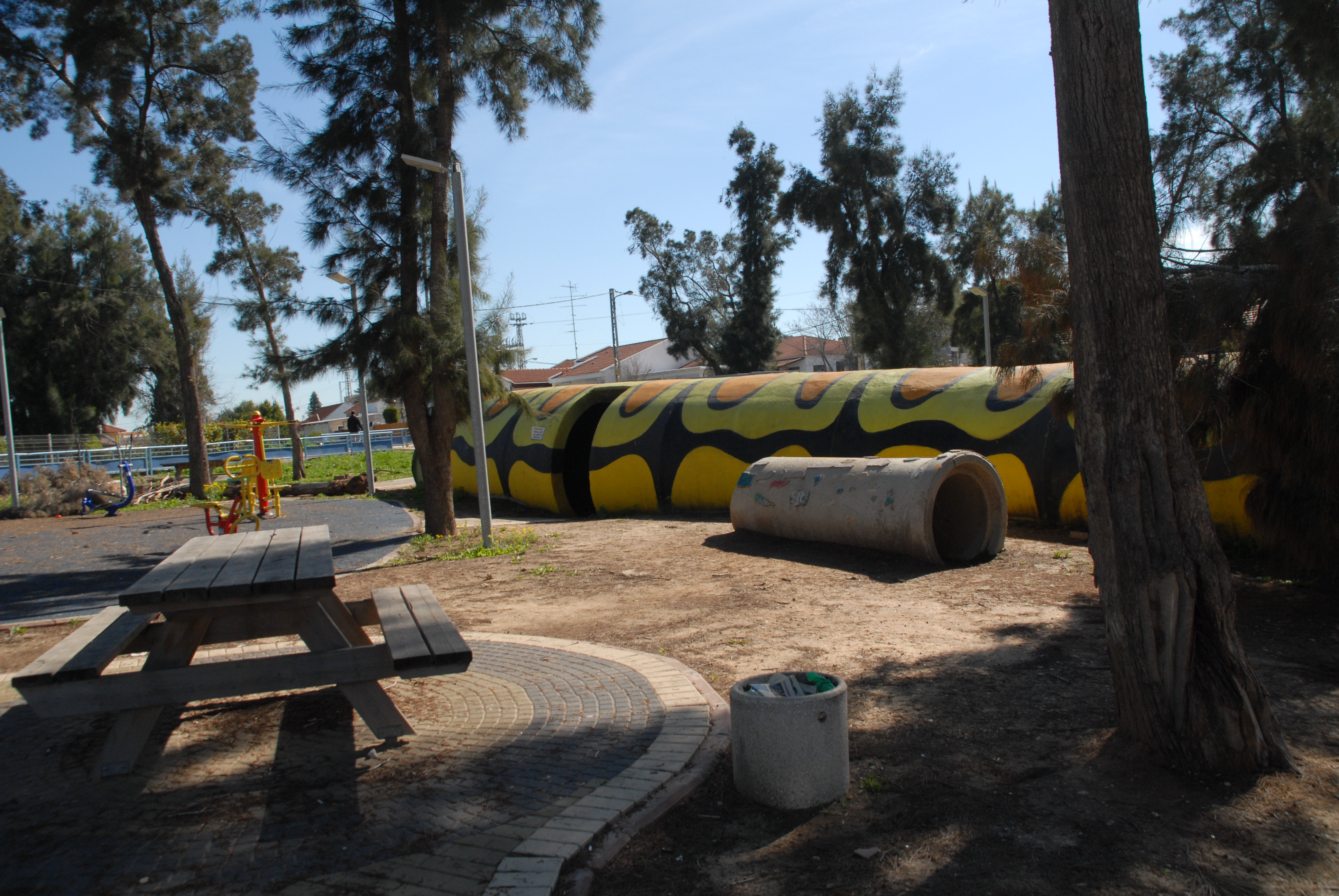 Israel Defense Forces